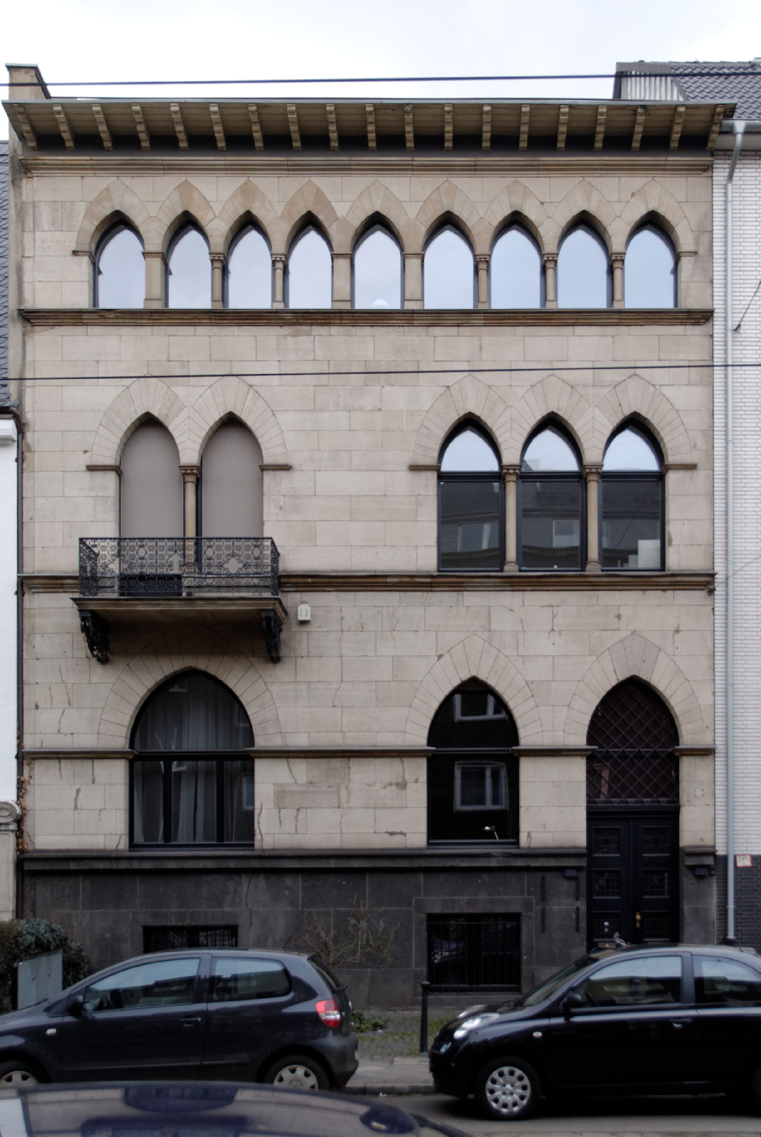 House Beethovenstraße 21 in Düsseldorf-Flingern-Nord, Germany